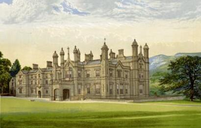 Glanusk Park Baxter print c1880